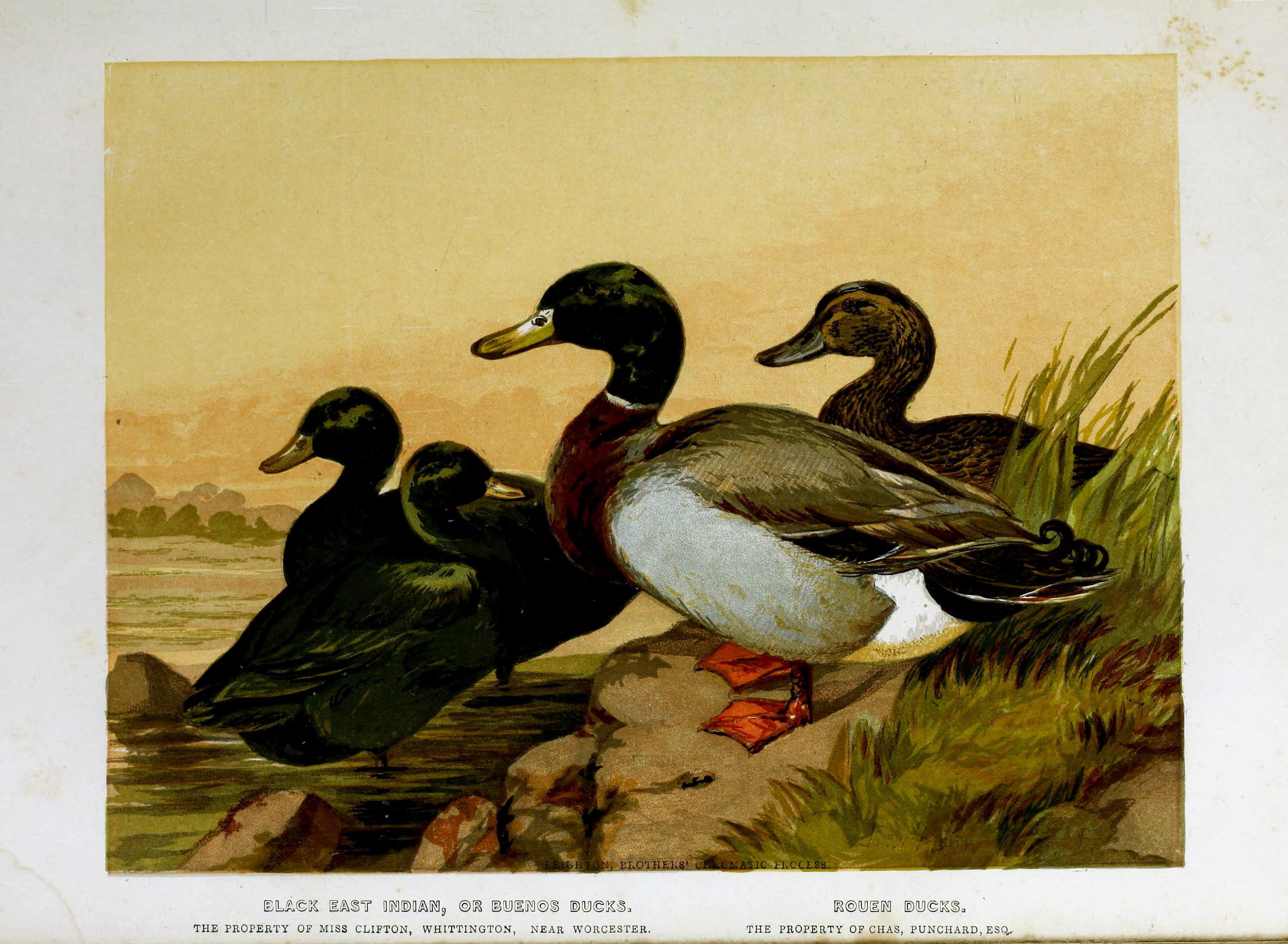 Black East Indian and Rouen Ducks, illustration by Harrison Weir in: William Wingfield, George William Johnson, Harrison Weir (illustrator) (1853). The Poultry Book: comprising the characteristics, management, breeding and medical treatment of Poultry. London: Wm. S. Orr and Co., page 289.